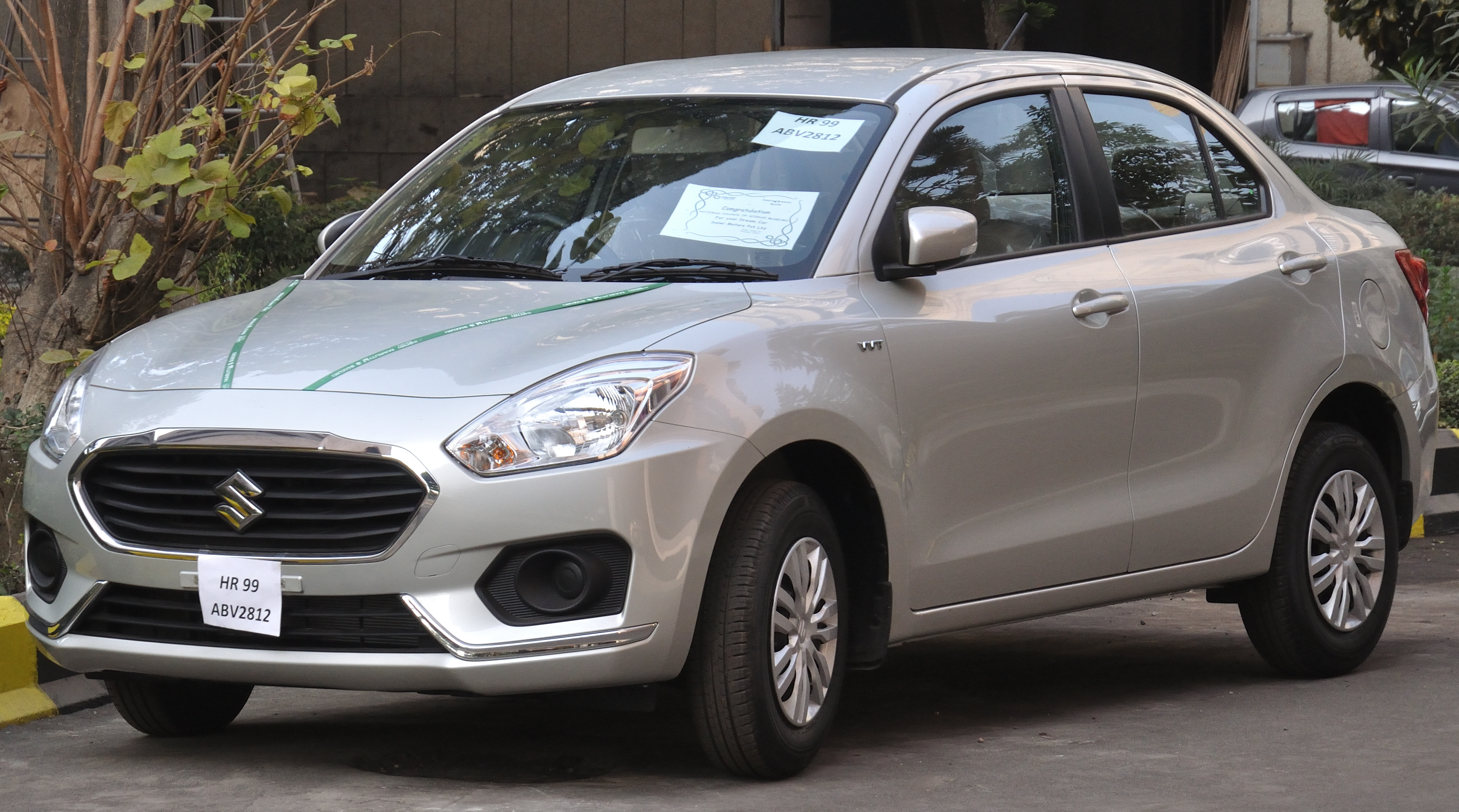 This photograph was taken in West Bengal.